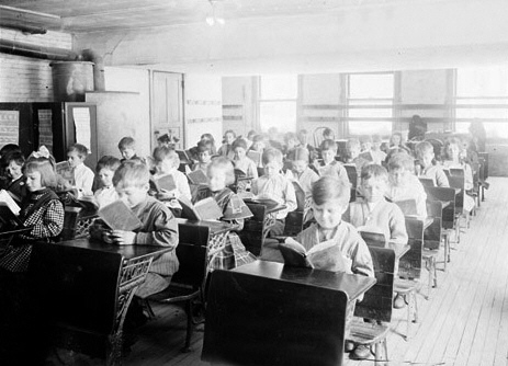 Robert Emmet School, classroom with children reading looking from the front. View of children reading at desks in a classroom at the Robert Emmet School, looking at the children from the front of the classroom. The school was located at 5500 West Madison Street in the Austin community area of Chicago, Illinois. Credit: Chicago Daily News negatives collection, DN-0003451. Courtesy of the Chicago Historical Society.